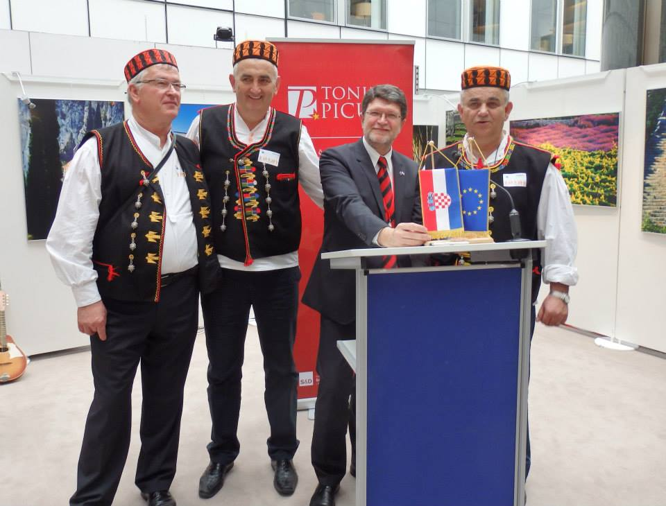 Croatian MEP Tonino Picula with Croatian producers of authentic products in parliamentary building in Brussels